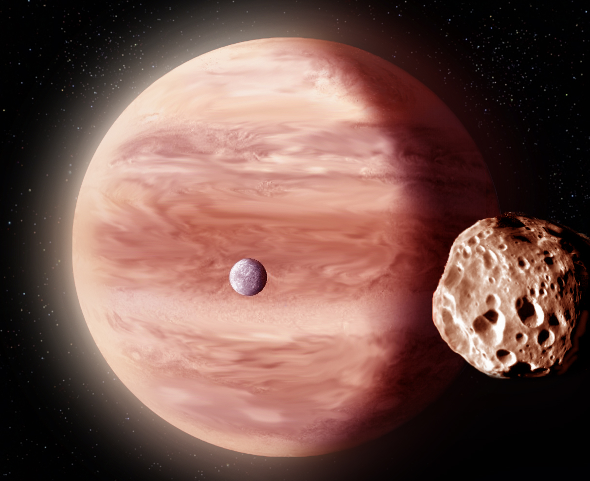 Extrasolar planet classified as "Hot jupiter" and its moons. The atmosphere of the planet can be seen as it evaporates due to the extreme proximity to the host star - Artist impression (Photoshop)